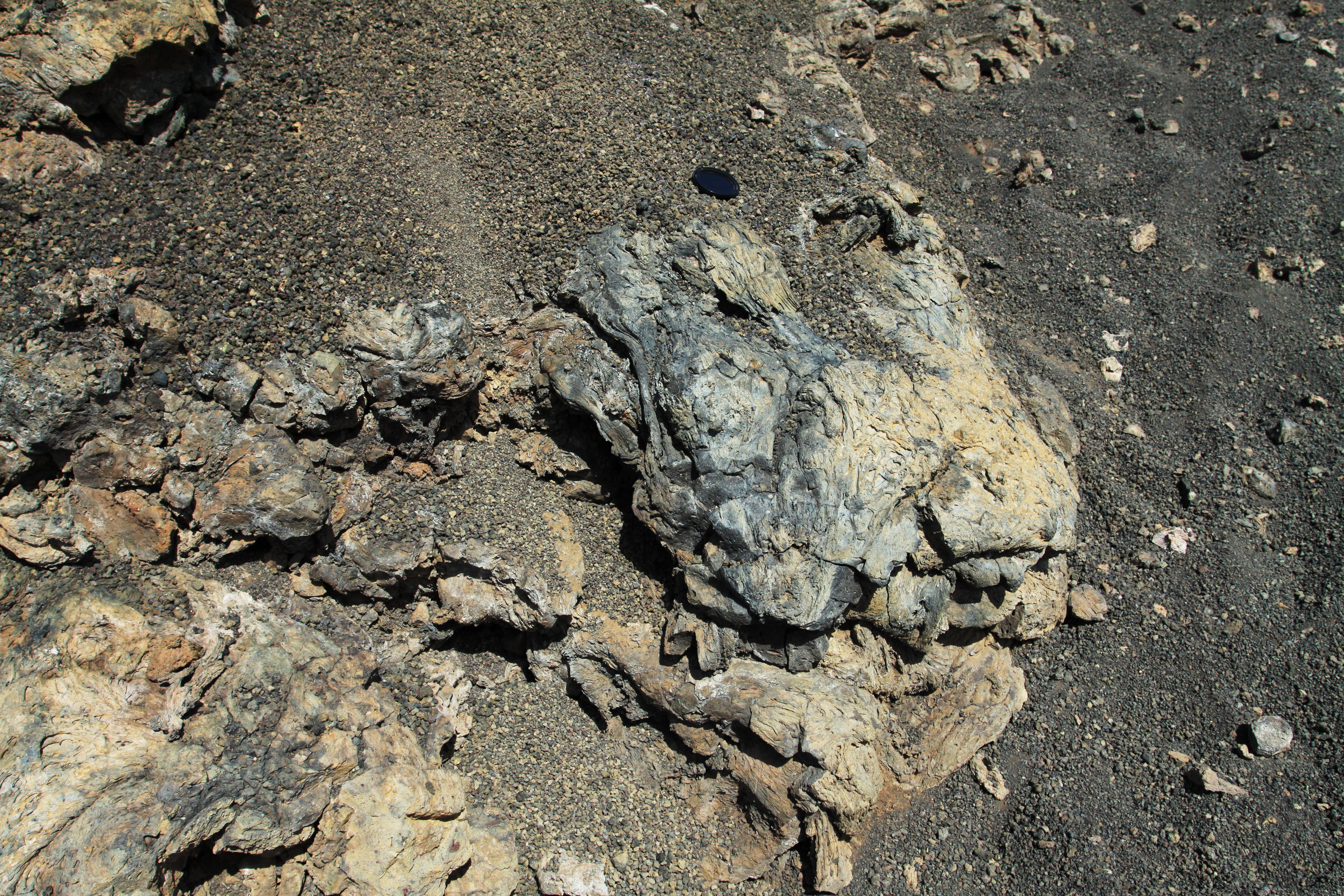 Detail of spatter particles forming part of scoria cone called "Caldera de los Cuervos" flank situated western from Masdache village on Lanzarote, The Canary Islands, Spain. The image was taken close to the top of cone. See the 77mm lens' lid for scale